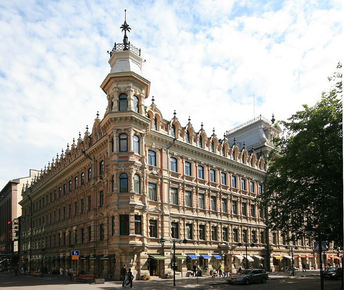 The Grönqvist House, Kluuvikatu 1 / Pohjoisesplanadi 25–27, Helsinki, Finland. Architect: Theodor Höijer. Built in 1882–1883.